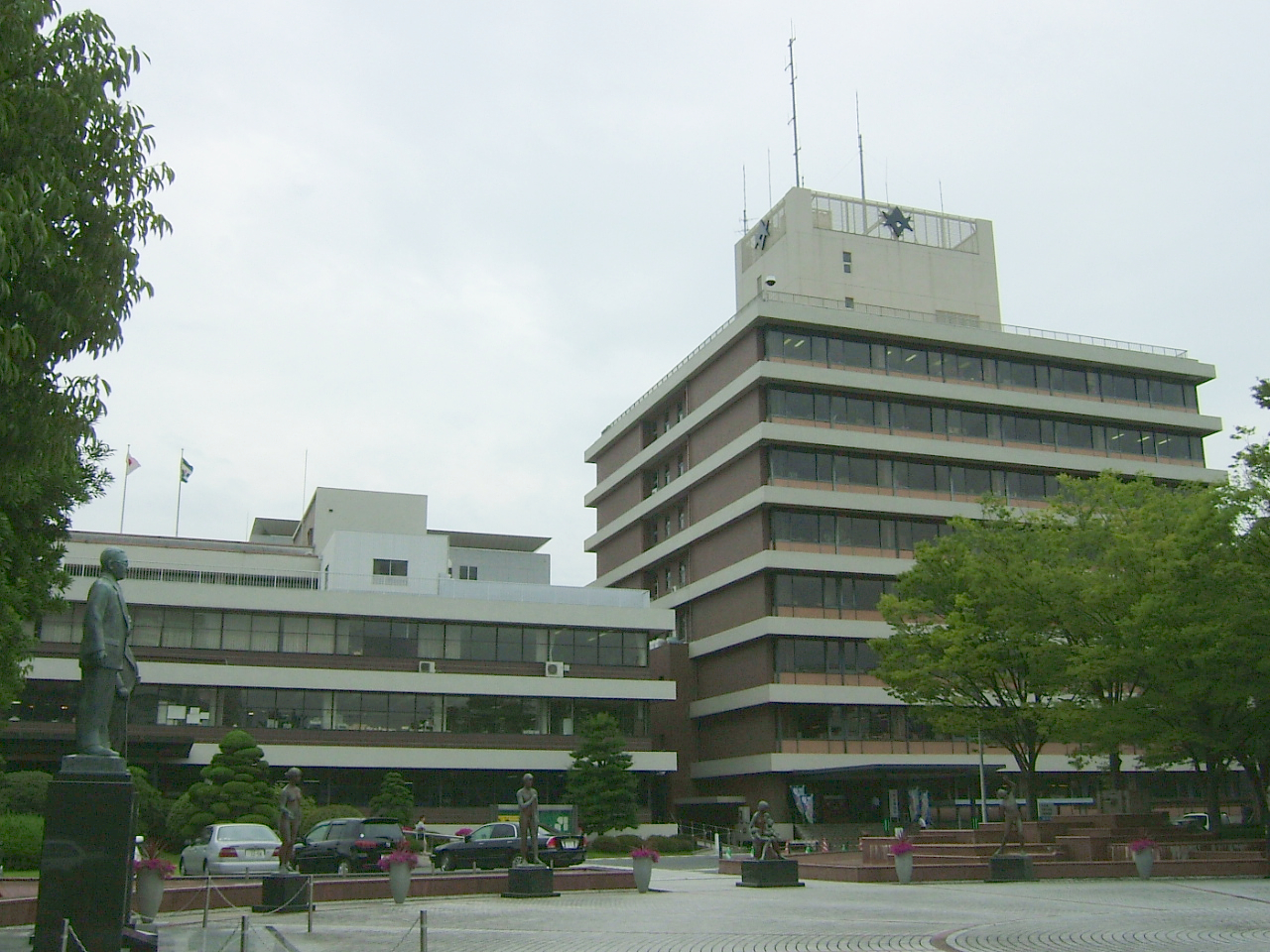 Toyota City Hall in Aichi prefecture, Japan.